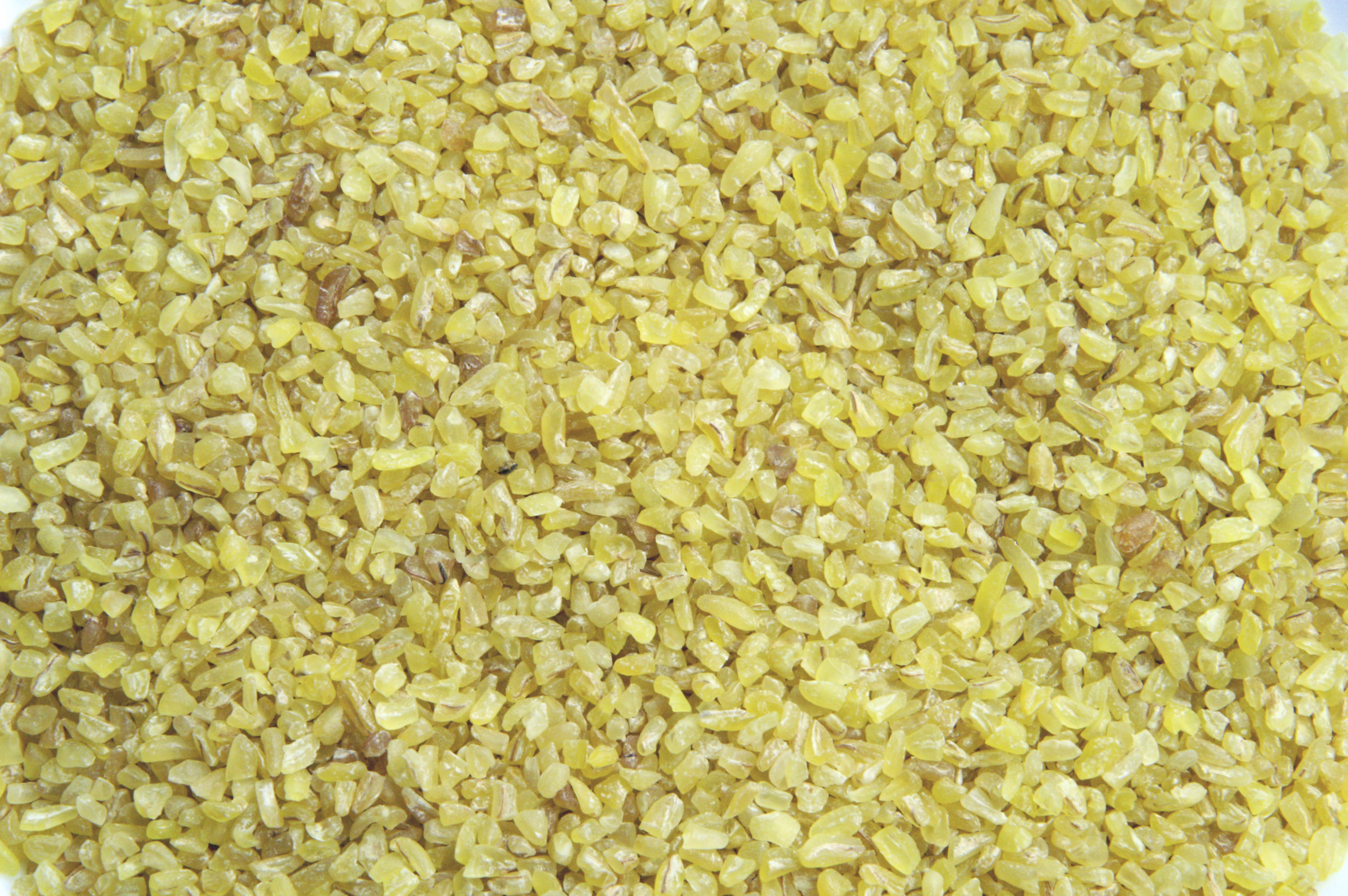 Uncooked bulgur wheat